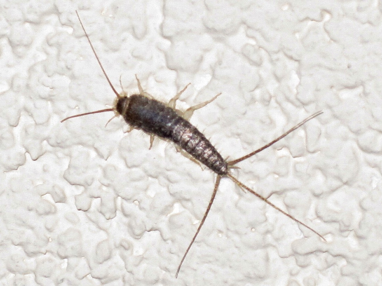 Ctenolepisma longicaudata (long-tailed silverfish), Mook, the Netherlands